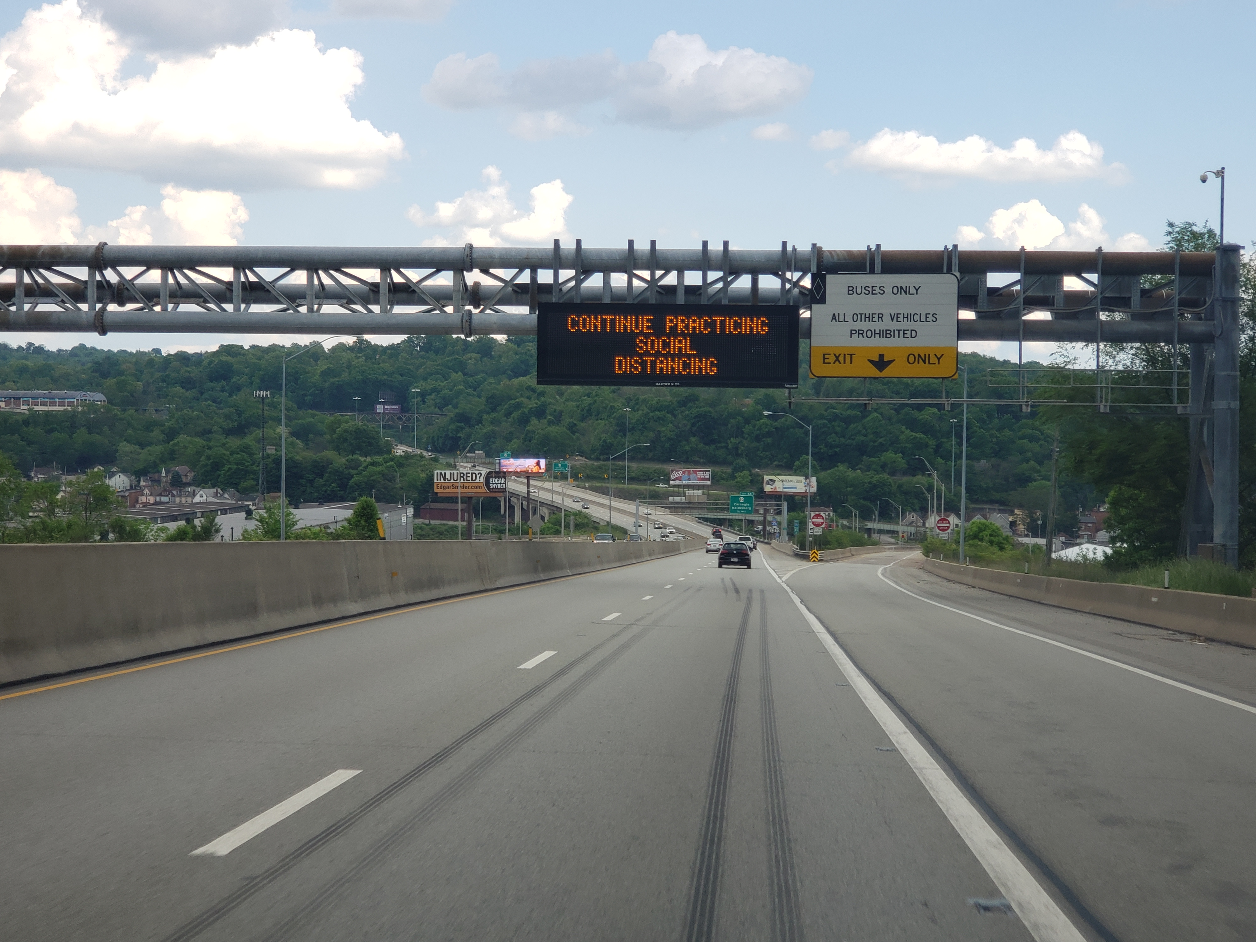 A variable message sign along the eastbound Interstate 376 (Parkway West) in Pittsburgh, Pennsylvania, west of Exit 65, reading "Continue practicing social distancing" in response to the COVID-19 pandemic.